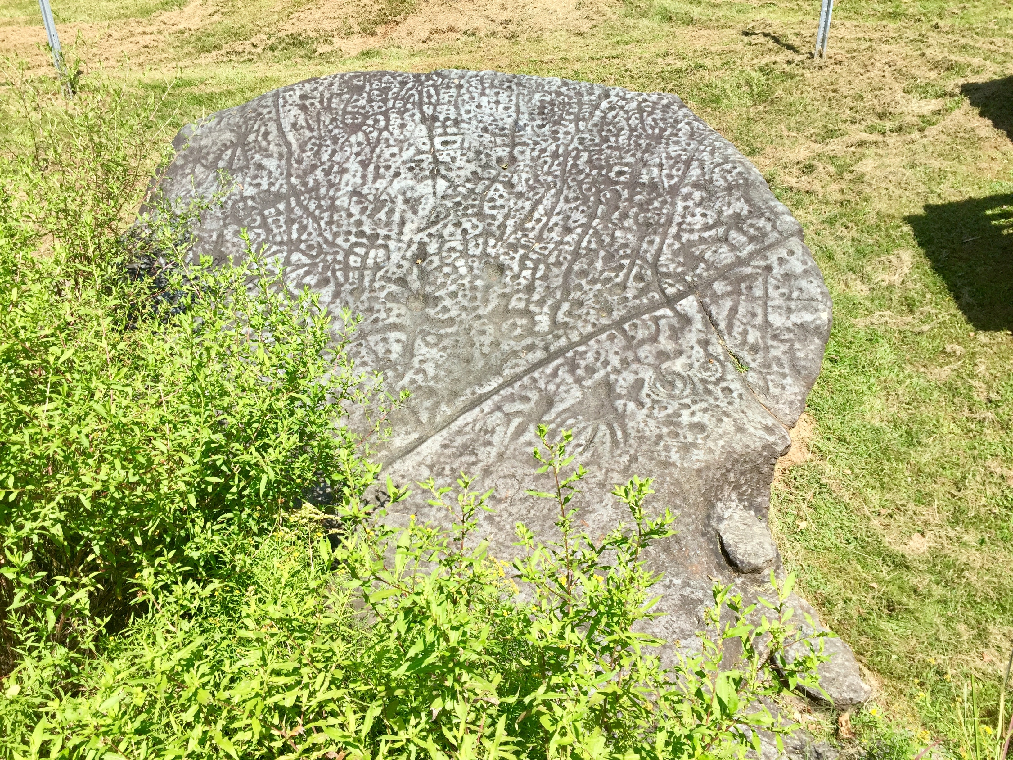 Judaculla Rock is a significant archaeological site that consists of a large soapstone boulder with a series of carvings and petroglyphs on its surface. Located in the Caney Fork Valley, human activity at the site can be traced back to 2000 BC, when the Boulder was used to make bowls, as evidenced by deep depressions in the lower portions of the rock. Some time later, additional etchings were made into the rock, with a total of over 1,400 glyphs being carved into the soft stone. The most prominent of these carvings is the “handprint of Judaculla,” a large hand-shaped glyph carved near the bottom of the rock. Other glyphs resemble humanoid figures, smaller handprints, and eyes. The site is the most significant collection of Pre-Columbian petroglyphs in the region, with the site being considered sacred by the indigenous Cherokee people, many of whom remain in the area and have rich folklore and legends surrounding the site. The site had a new viewing platform installed in 2010, and the site was re-graded to allow for better drainage. In 2013, the site, owing to its great historical significance, was listed on the National Register of Historic Places.